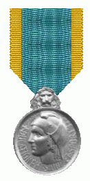 Médaille de la Jeunesse et des Sports Republique Francaise